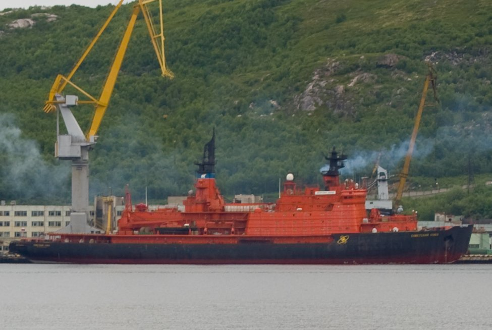 The nuclear-powered Arktika class icebreaker Sovetskiy Soyuz.